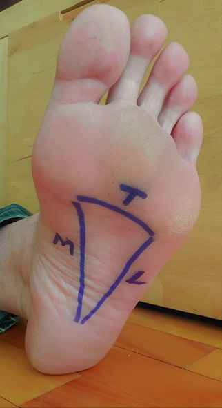 Arches of the foot